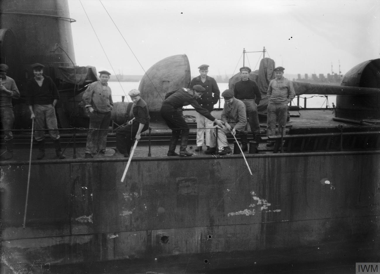 Internment at Scapa Flow 24 November 1918 - 20 June 1919: German sailors fishing from a destroyer in Scapa Flow.